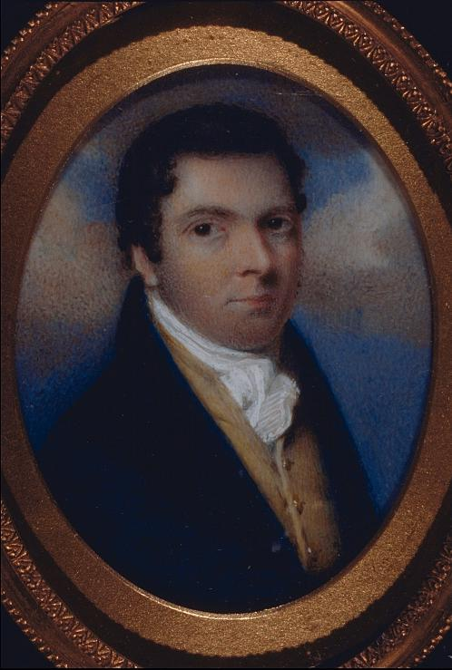 Painting, miniature, Portrait of Côme-Séraphin Cherrier (1798-1885), Anonymous, 1820-1829, 5.7 x 4.3 cm